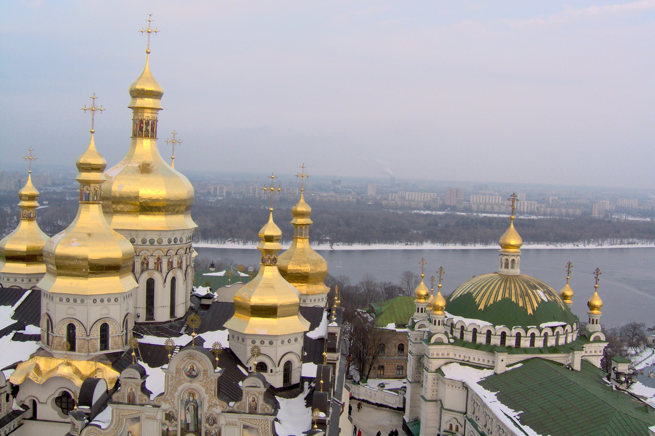 Ukraine, Kiev. Ukraine, Kiev. Species in the Pechersk Lavra.